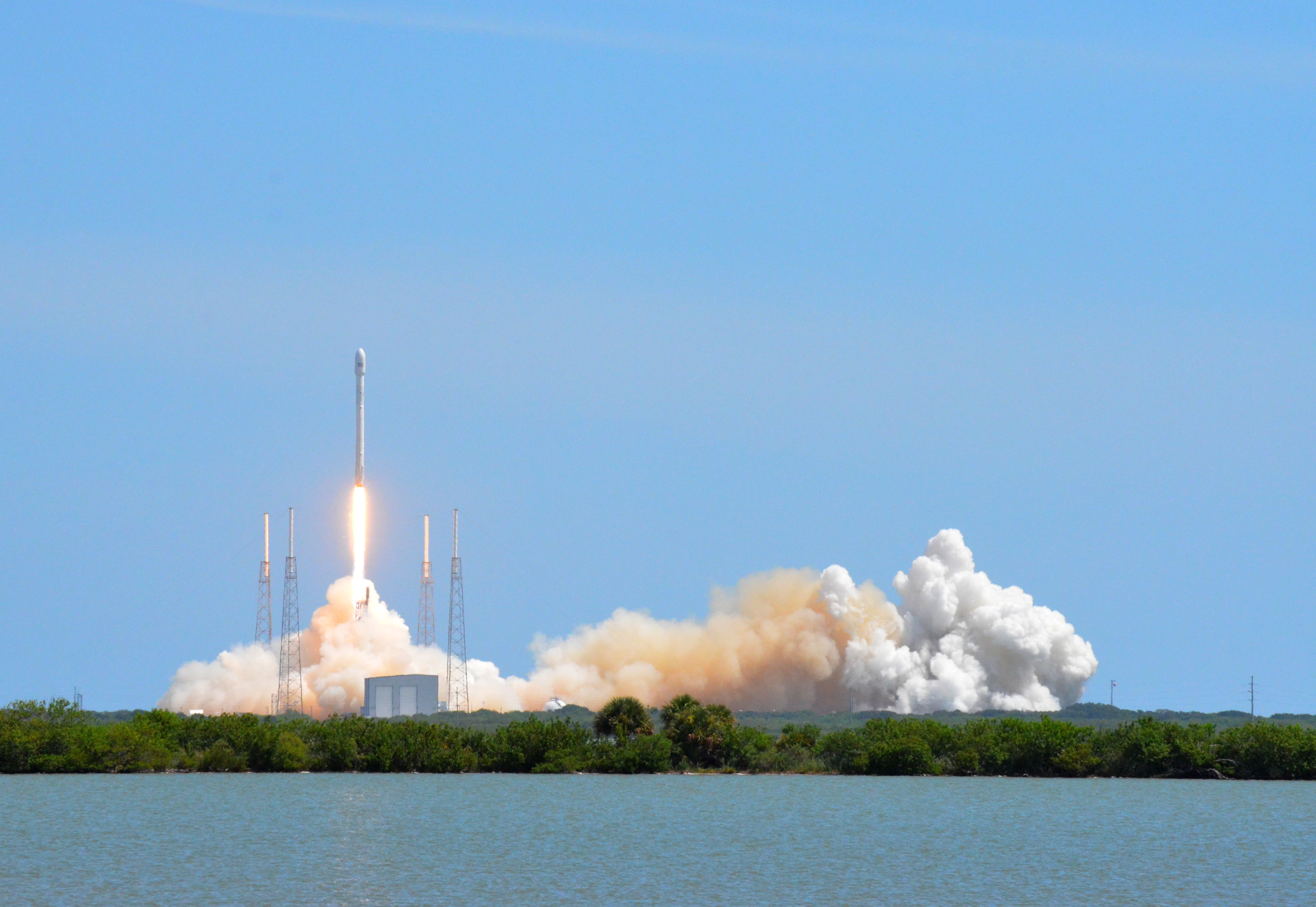 A Falcon 9 rocket launches from Cape Canaveral Air Station, Fla., July 14, 2014, carrying six Orbcomm-OG2 satellites. The Falcon 9 is a two-stage rocket designed and manufactured by SpaceX for the reliable and safe transport of satellites and the Dragon spacecraft into orbit.